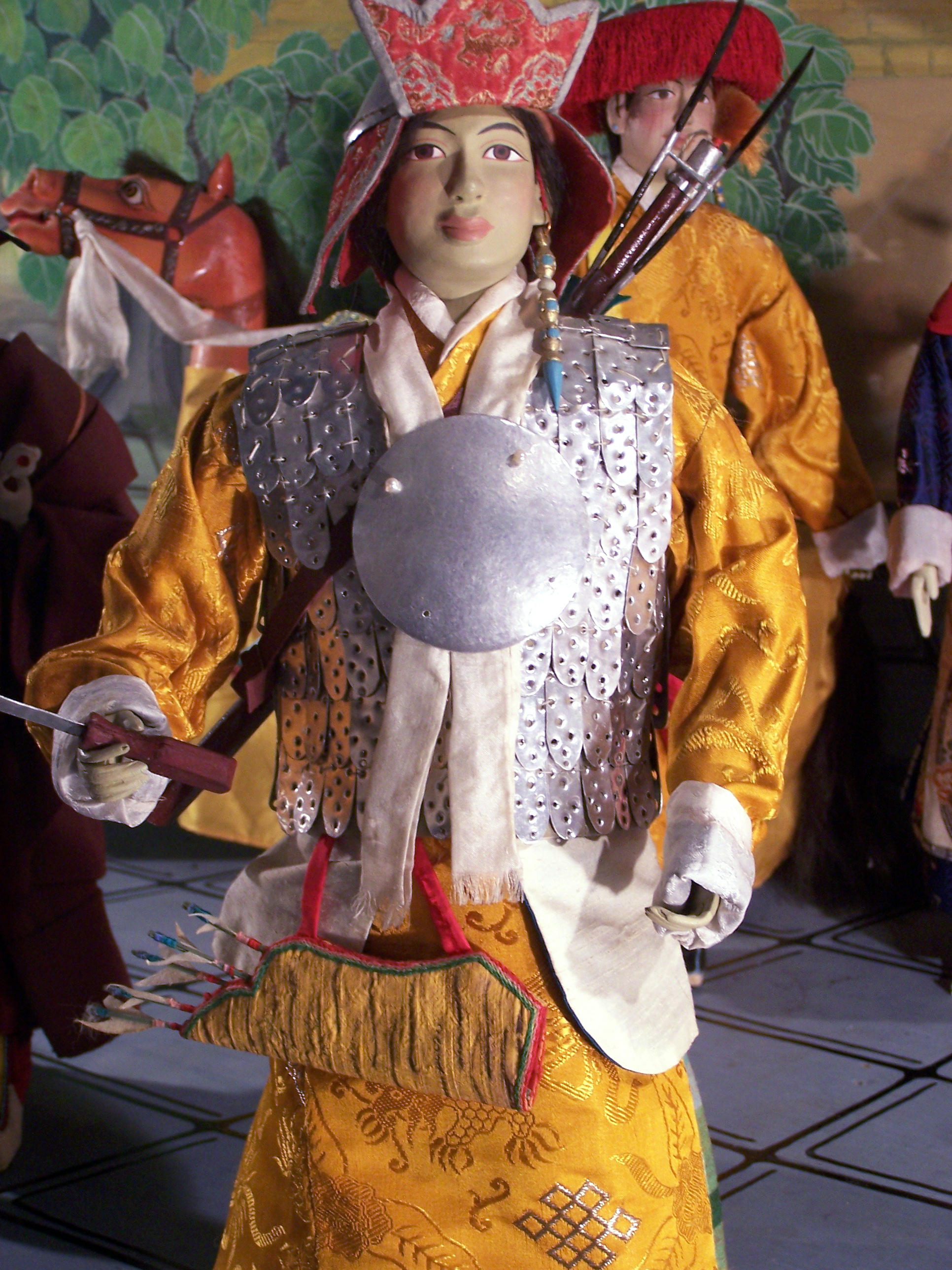 Miniature Tibetan warrior, Losel Doll Museum, Norbulingka Institute, Dharamsala.